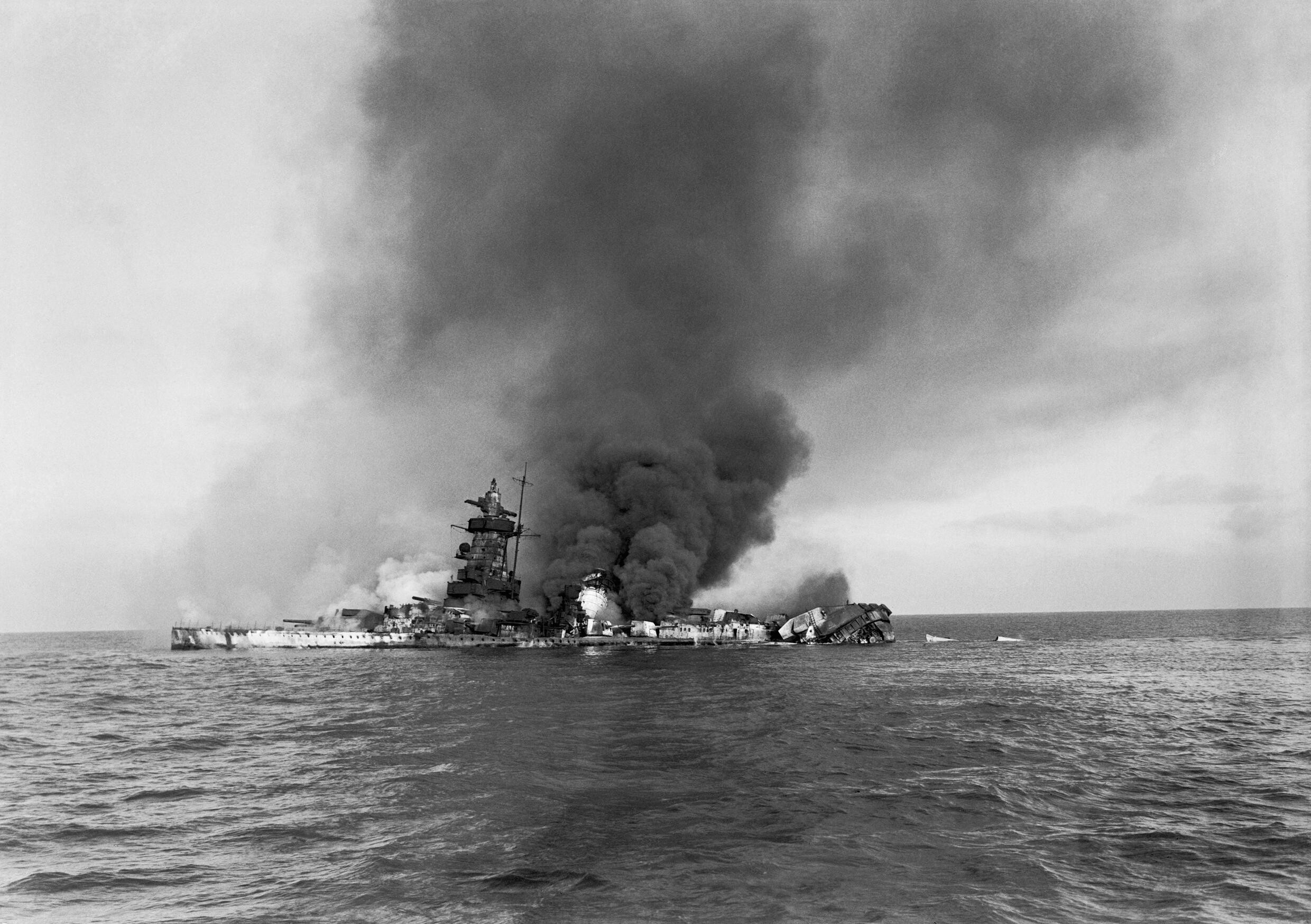 The German pocket battleship ADMIRAL GRAF SPEE in flames after being scuttled off Montevideo, Uruguay, after the Battle of the River Plate, 17 December 1939.